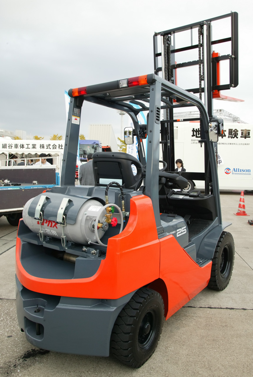 Japanese in-vehicle LPG bottle on Forklift